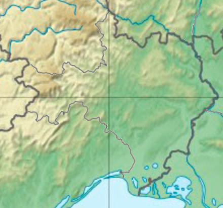 Blank topographic map of Gard for geo-location purpose, with regions and departements distinguished.